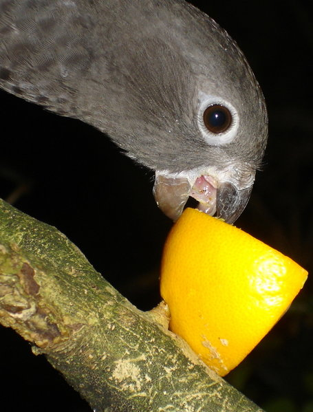 Madagascar parrot. Photo by Cmouse at National Aviary.